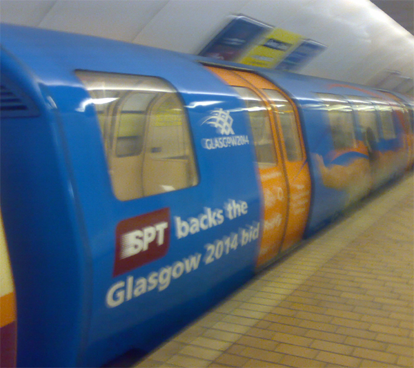 Photograph of Glasgow Subway carriage with the new cover showing SPT's support for Glasgow's commonwealth bid. Taken by Mark Whiteside.